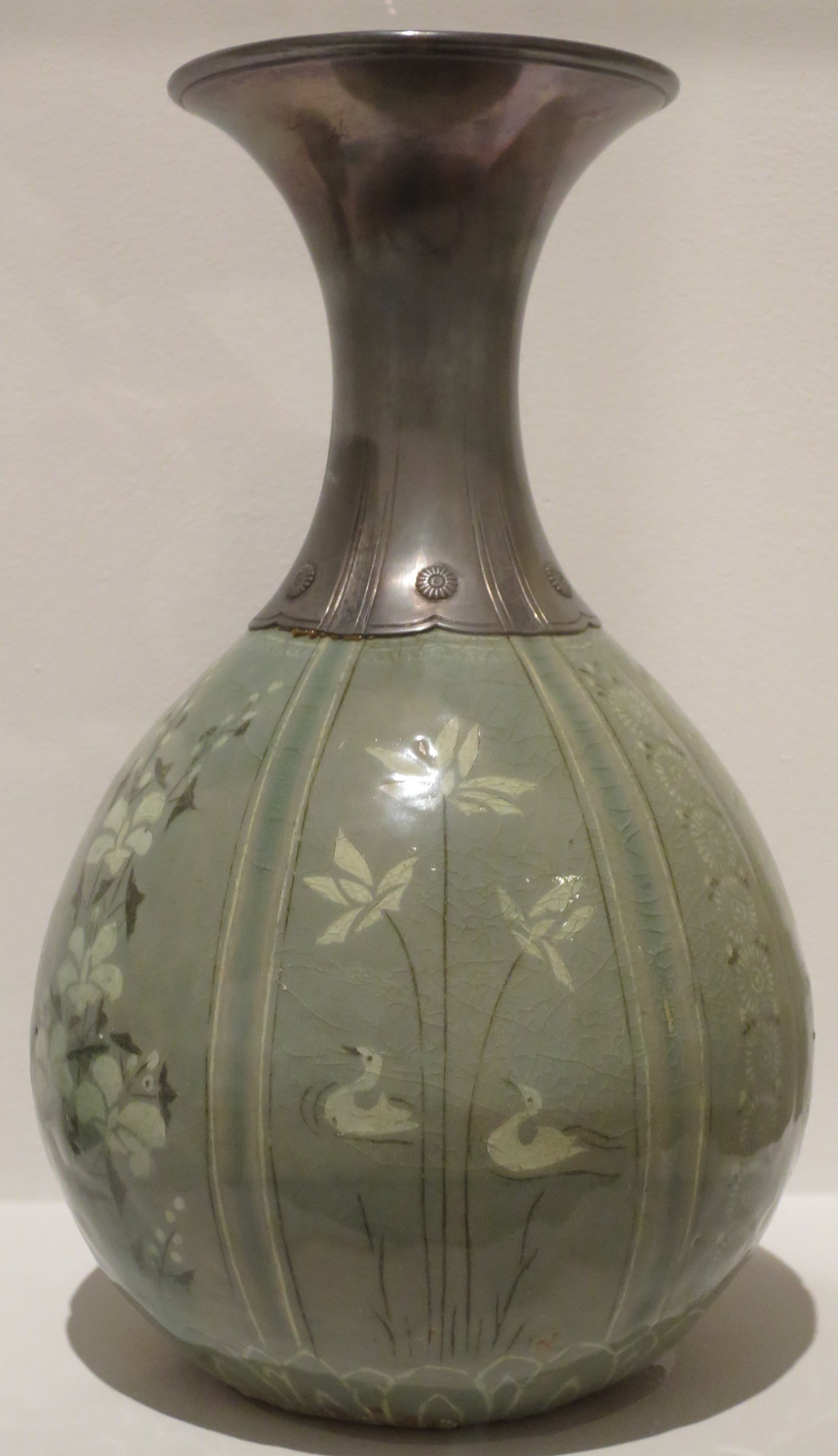 Goryeo dynasty bottle with flower design, early 13th century, stoneware with celadon glaze and black and white slip inlay, Honolulu Museum of Art, accession 4147.1. Metal restoration is of a later date.